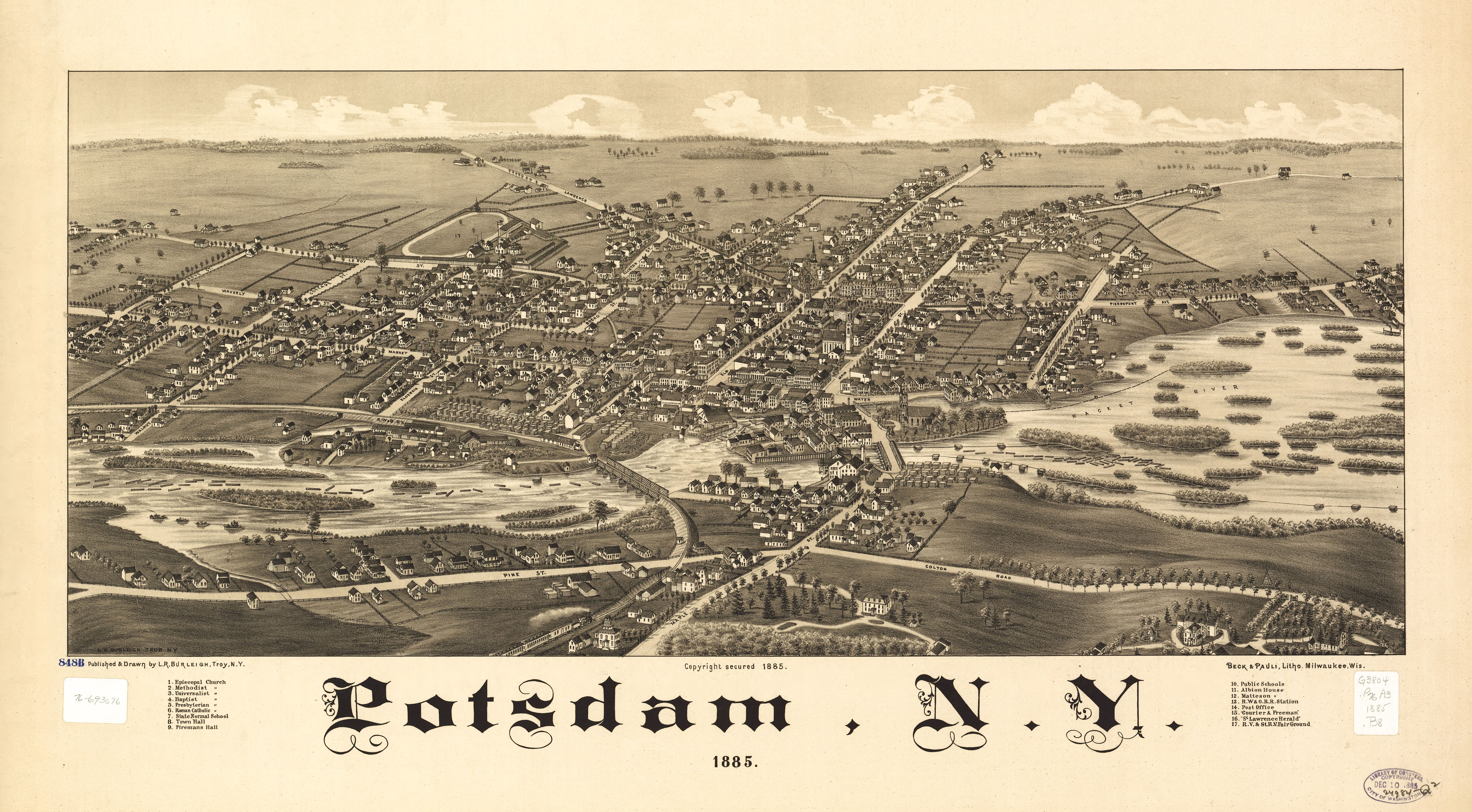 Perspective map not drawn to scale. Bird's-eye-view. LC Panoramic maps (2nd ed.), 621 Available also through the Library of Congress Web site as a raster image. Indexed for points of interest. AACR2